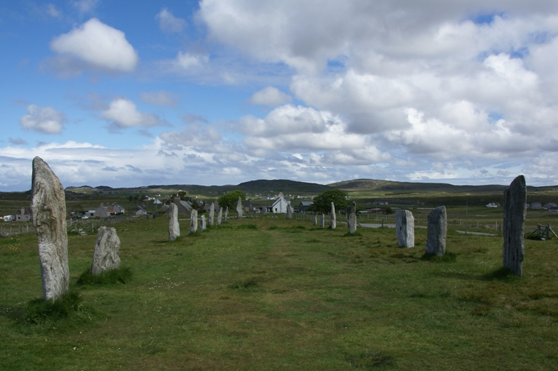 Calanais Standing Stones, Lewis, Scotland